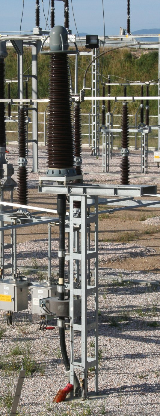 225kV cable termination of the incoming XLPE cable at the TGV substation in Perpignan